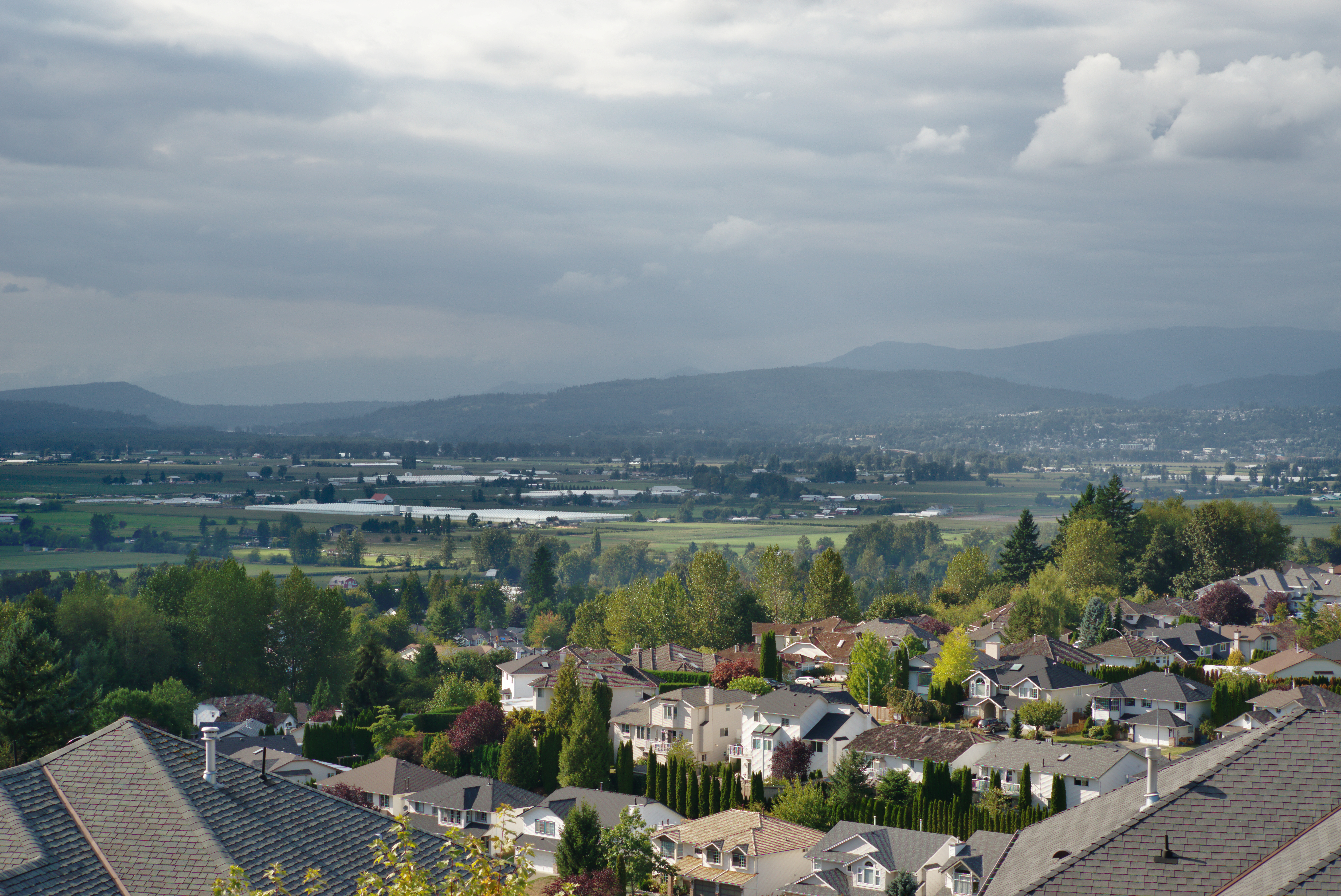 View from Whatcom Rd at McKee Rd, in Abbotsford, British Columbia, Canada looking towards Mission, BC. In the distance Mission Bridge is visible 8 kilometers away.